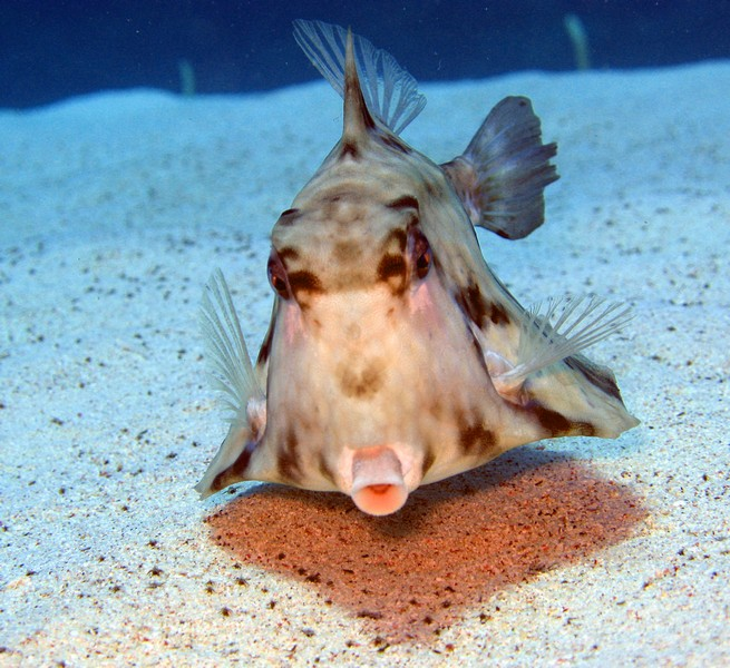 Humpback Boxfish - Tetrasomus gibbosus; Egypt - Sinai - Dahab (Eel Garden)